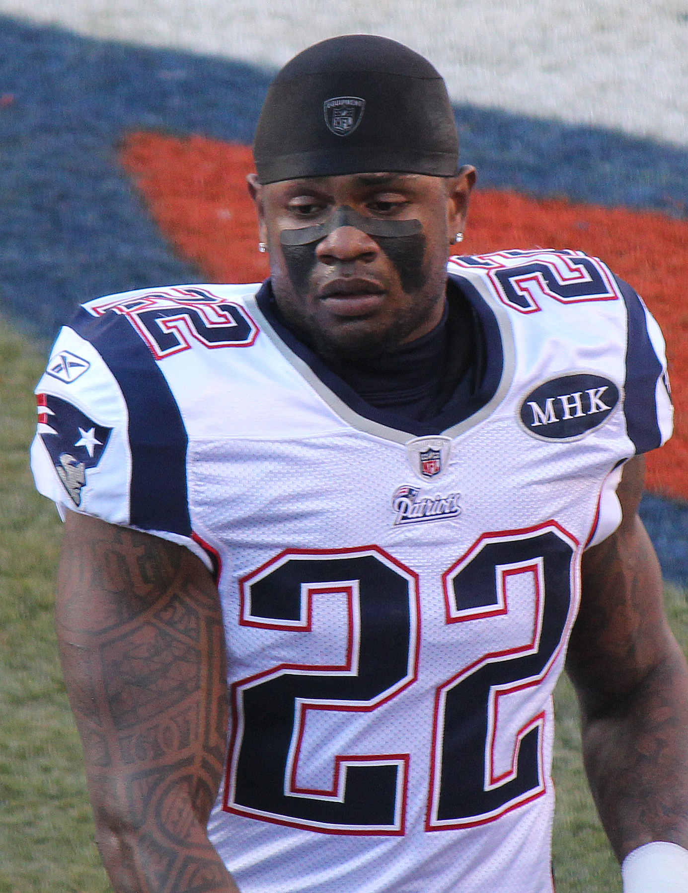 Stevan Ridley, a player on the National Football League.